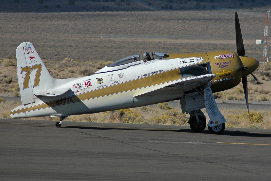 Grumman F8F-2 Bearcat Rare Bear